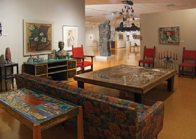 Interior photo of Steffen Thomas Museum taken in the "Living Room" gallery